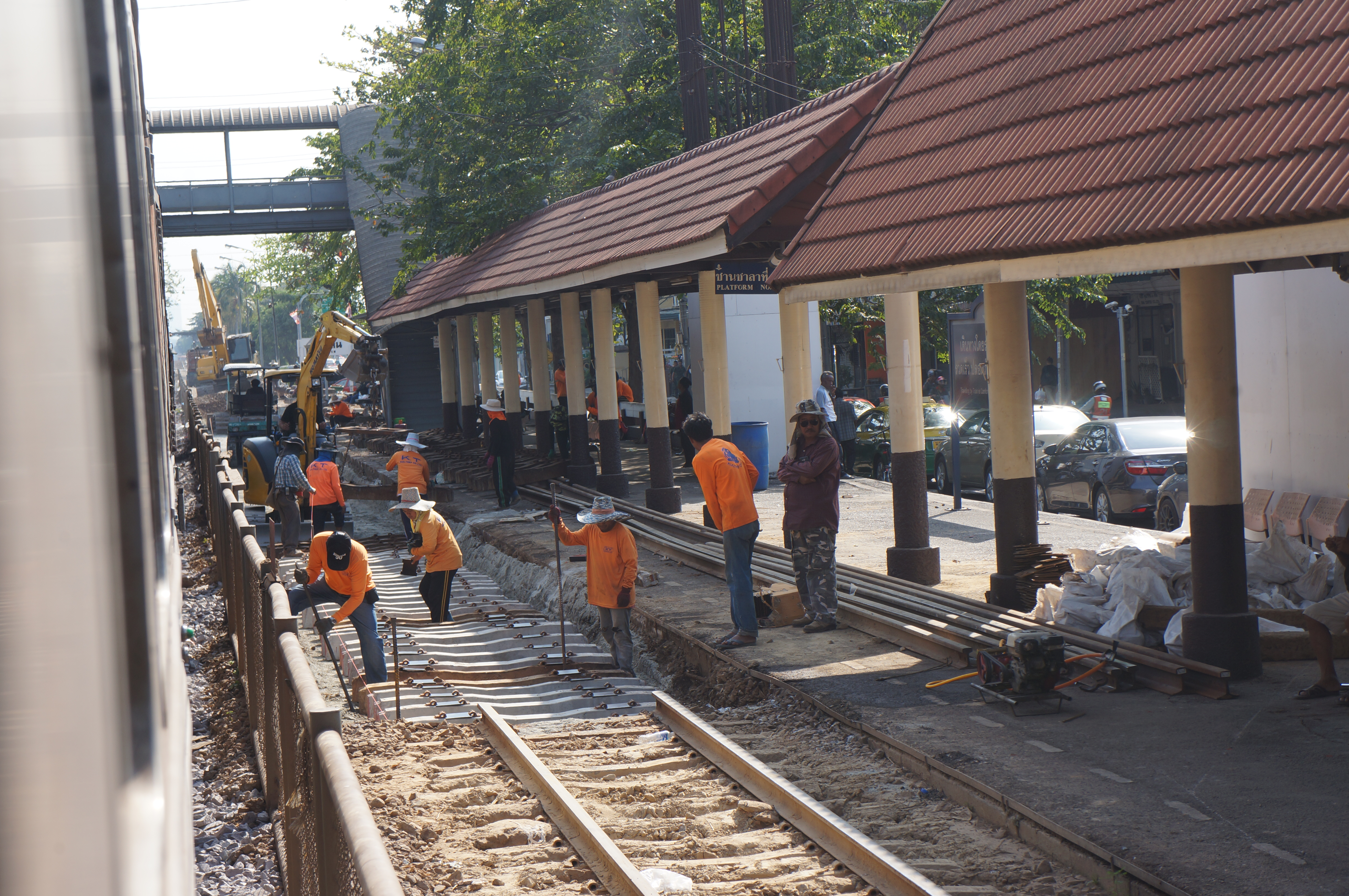 201701 Construction at Sam Sen Station